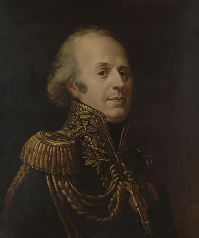 General count Narbonne-Lara